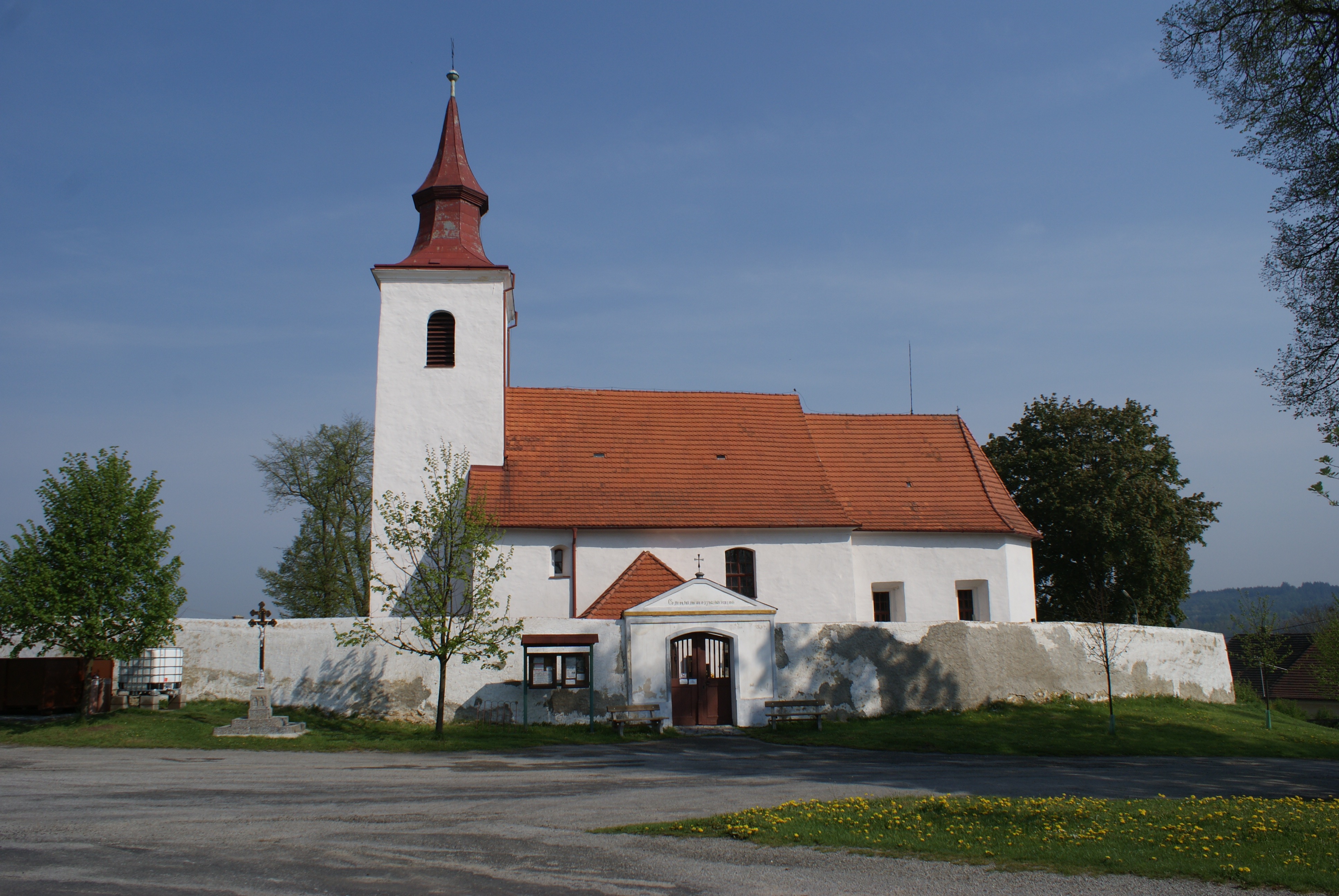 Heřmaň, a village in Písek district, Czech Republic. The village church.